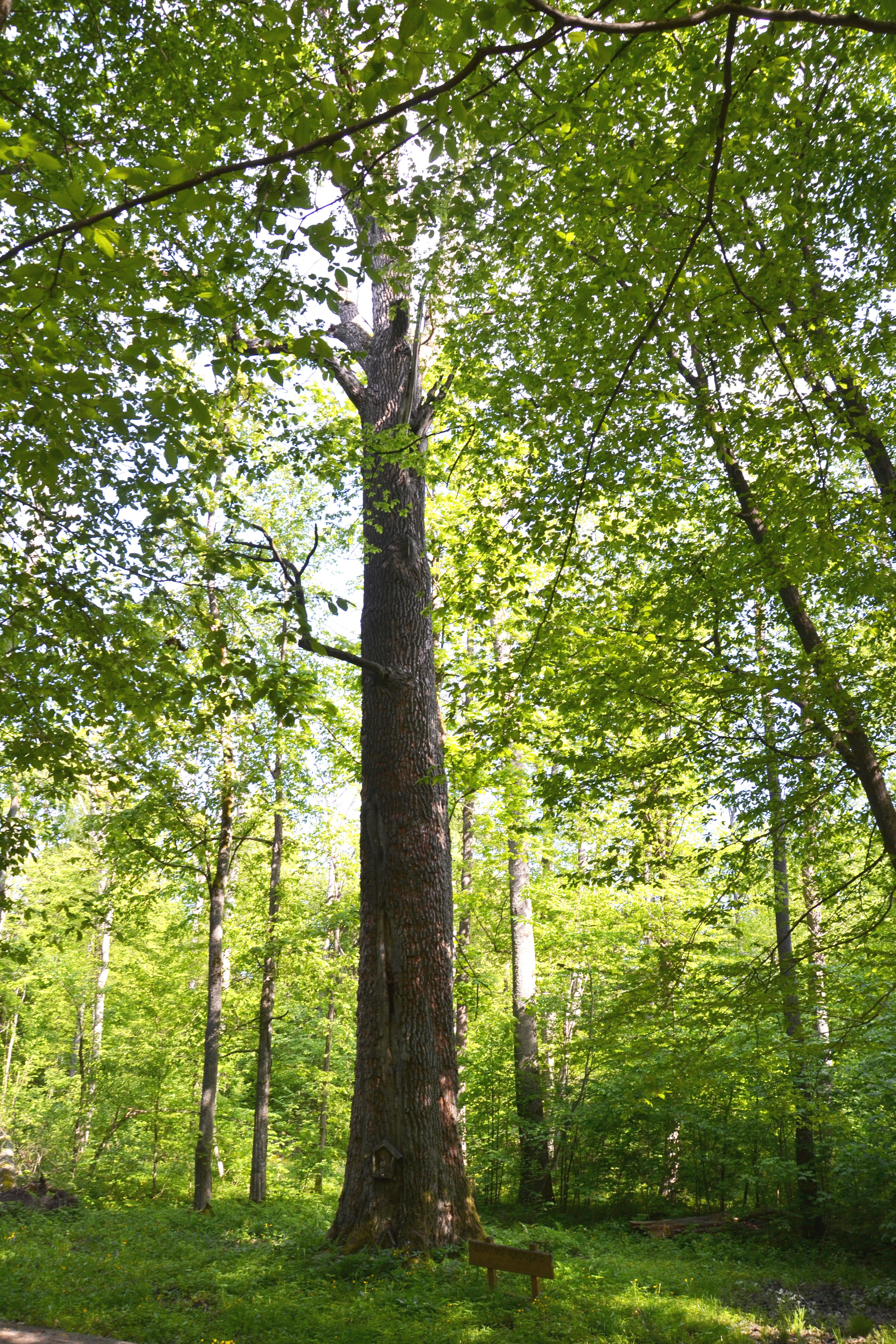 Šaravu oak, Kėdainiai district, Lithuania